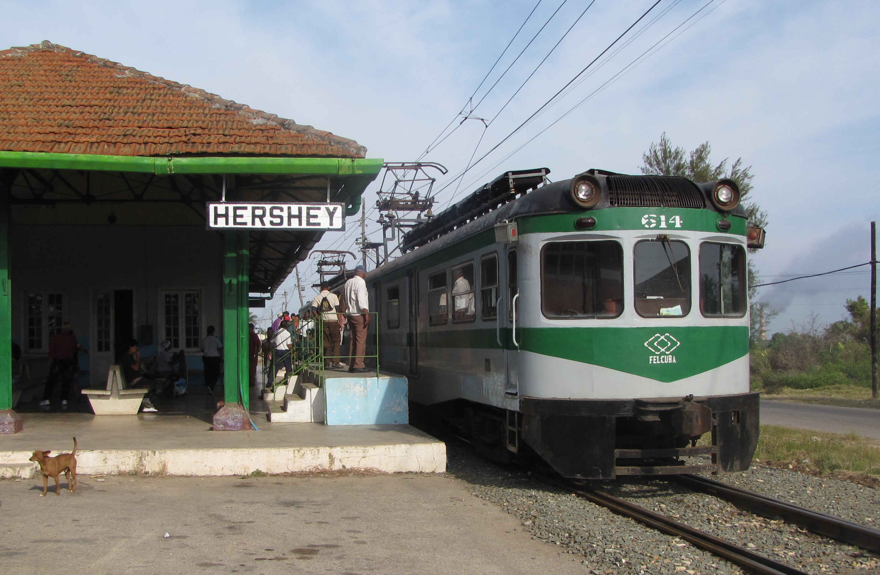 Railcar of the Hershey Electric Railway standing at Hershey station